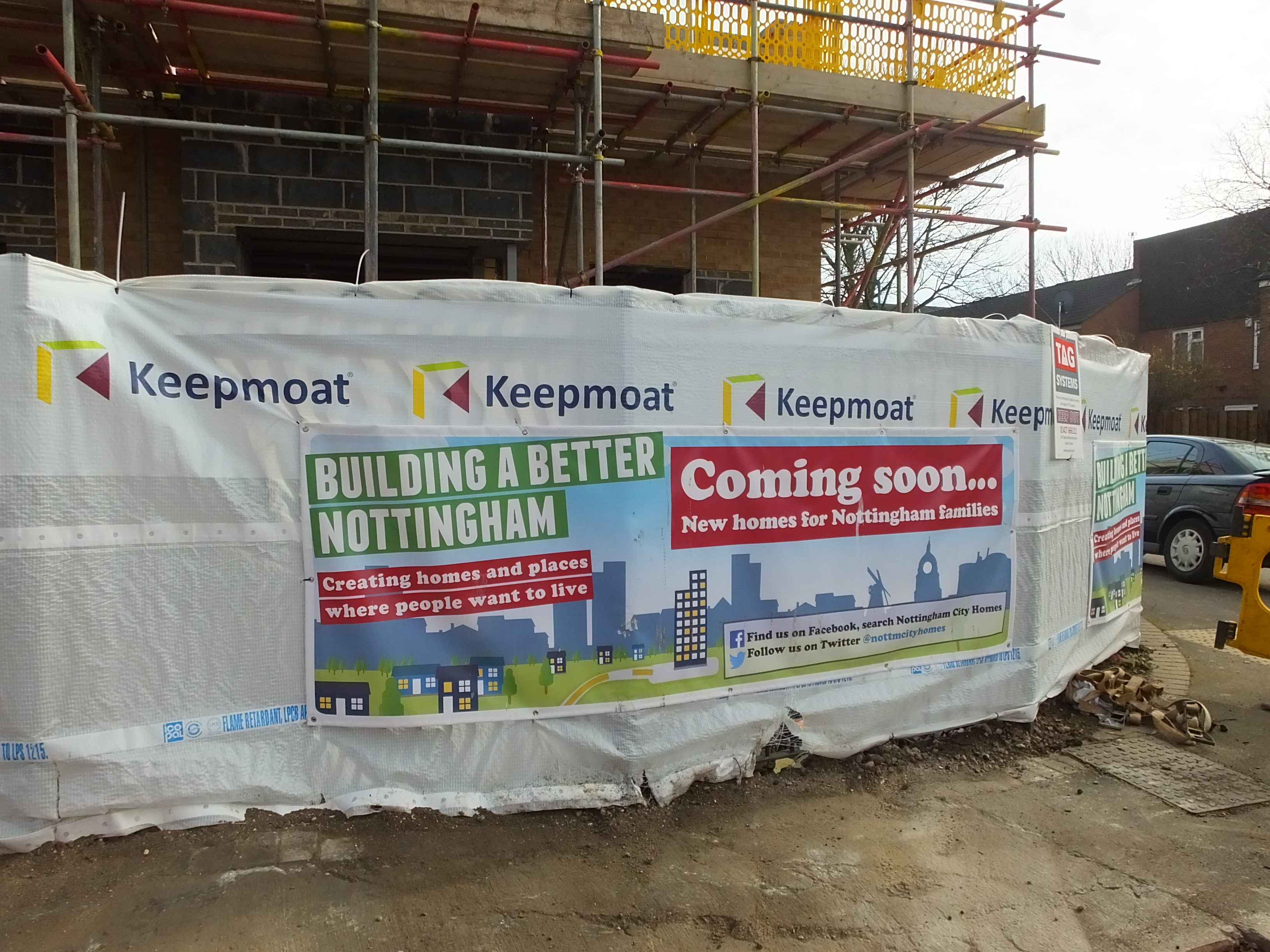 The Meadows, Nottingham (NG2) is a large Radburn style housing estate, south of the castle in Nottingham.